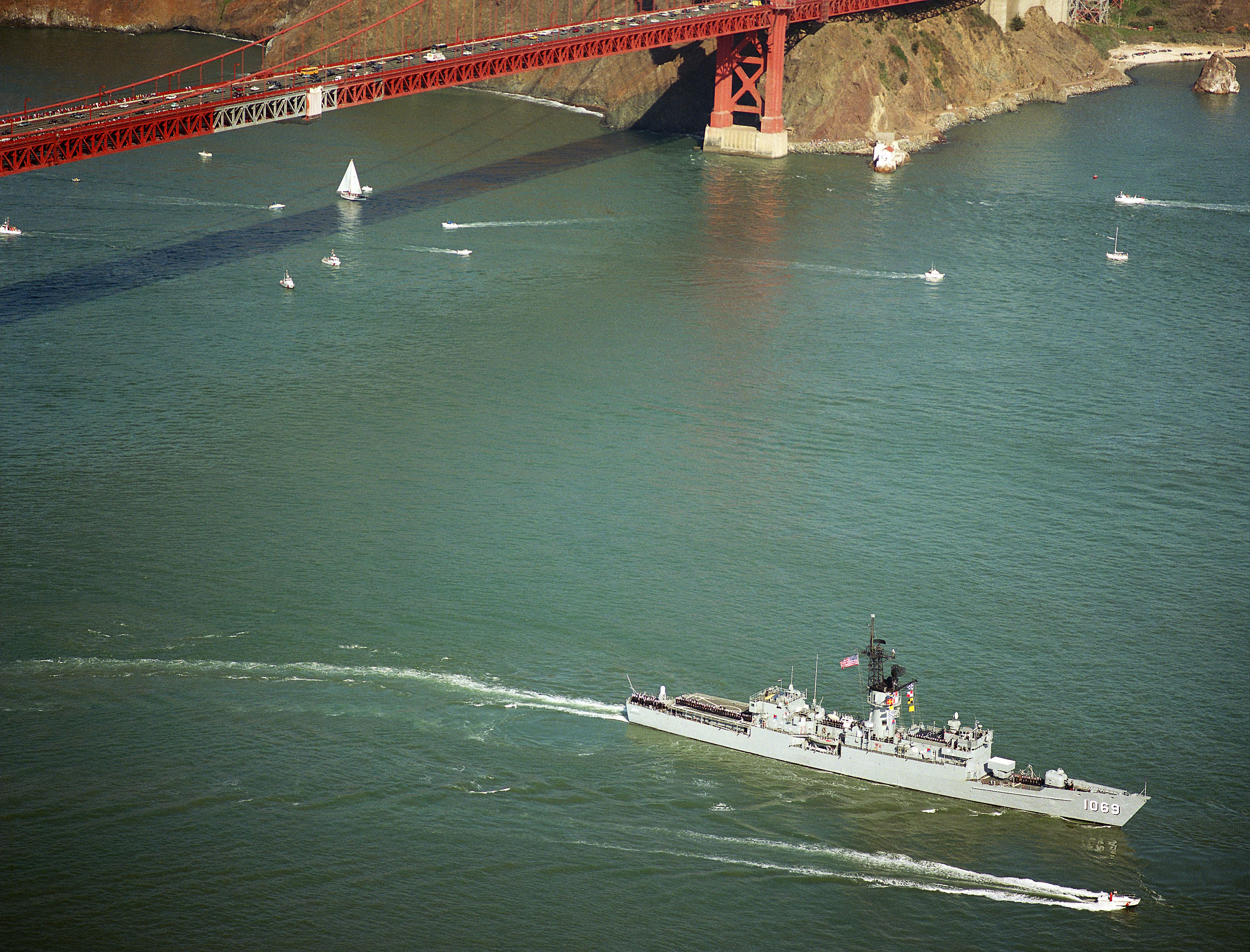 An elevated starboard view of the frigate USS BAGLEY (FF 1069) passing the Golden Gate Bridge during Fleet Week activities. Location: SAN FRANCISCO BAY, CALIFORNIA (CA) UNITED STATES OF AMERICA (USA)